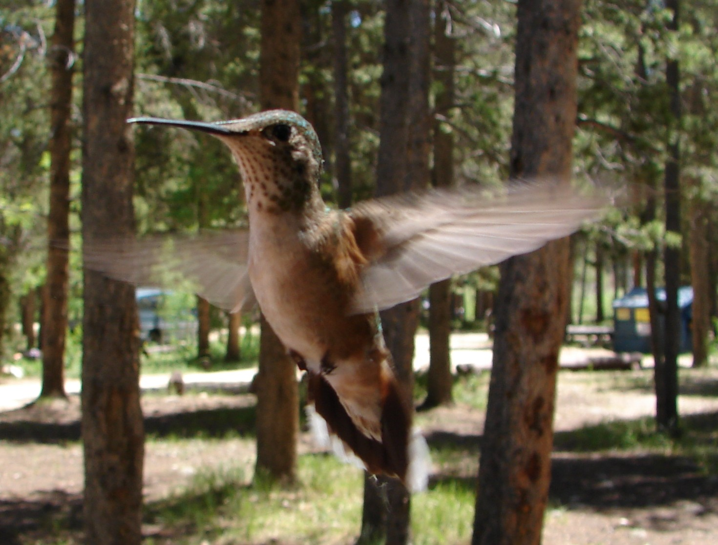 A subadult female Rufous Hummingbird in flight.